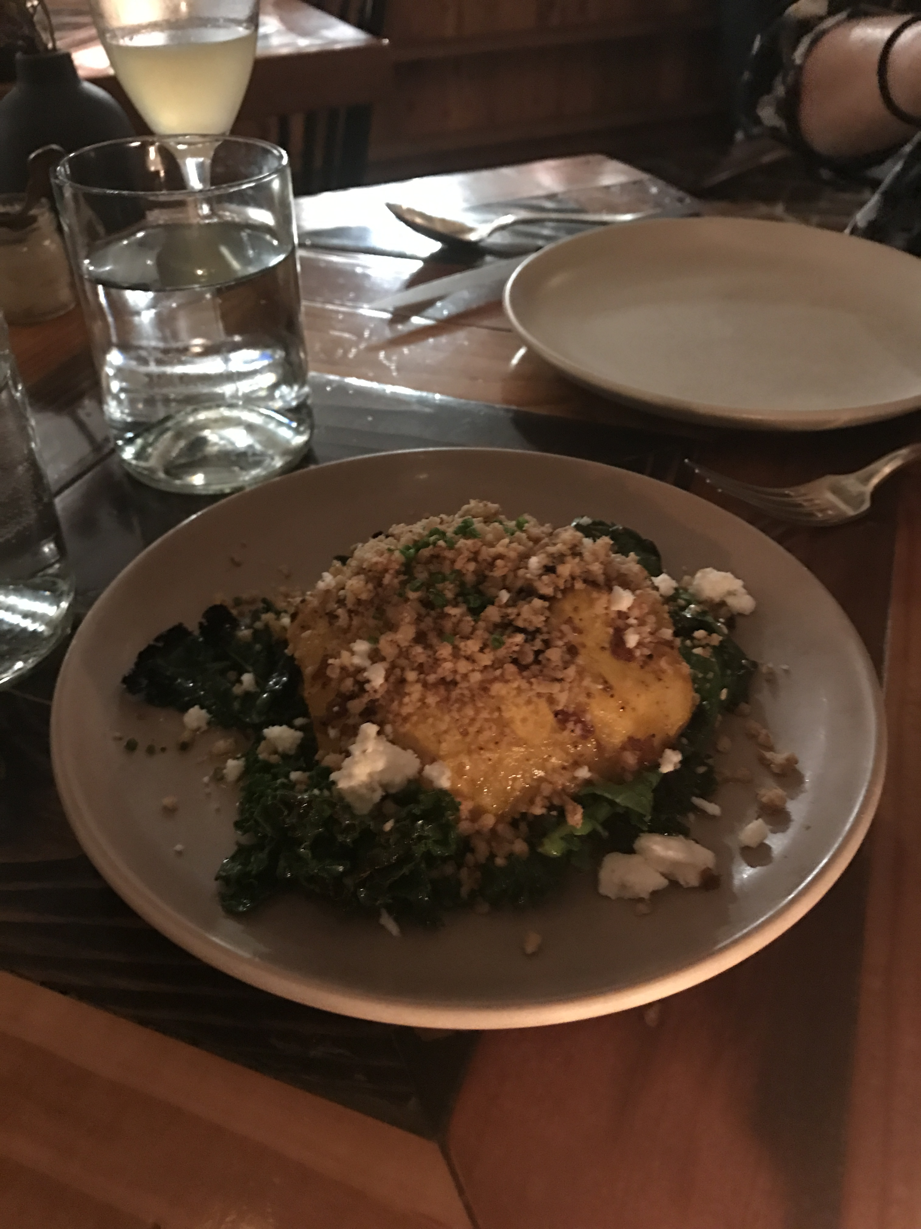 Ending the year - dinner at The Dabney and New Year's Eve at The Stuarts